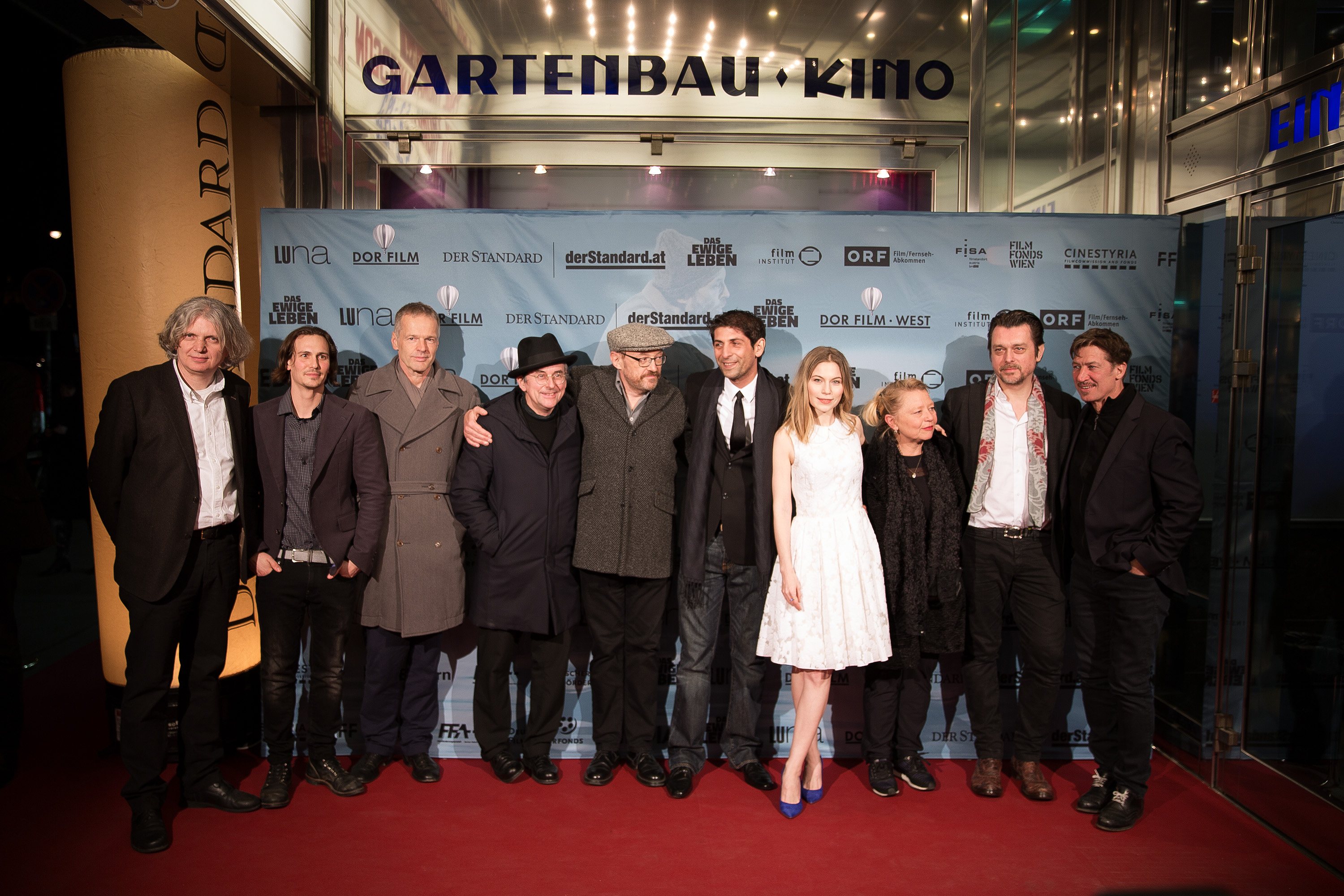 Premiere of the film Das ewige Leben at Gartenbaukino in Vienna, Austria: Wolfgang Murnberger, Christopher Schärf, Wolf Haas, Johannes Silberschneider, Josef Hader, Saša Barbul, Nora von Waldstätten, Margarethe Tiesel, Hary Prinz and Tobias Moretti.